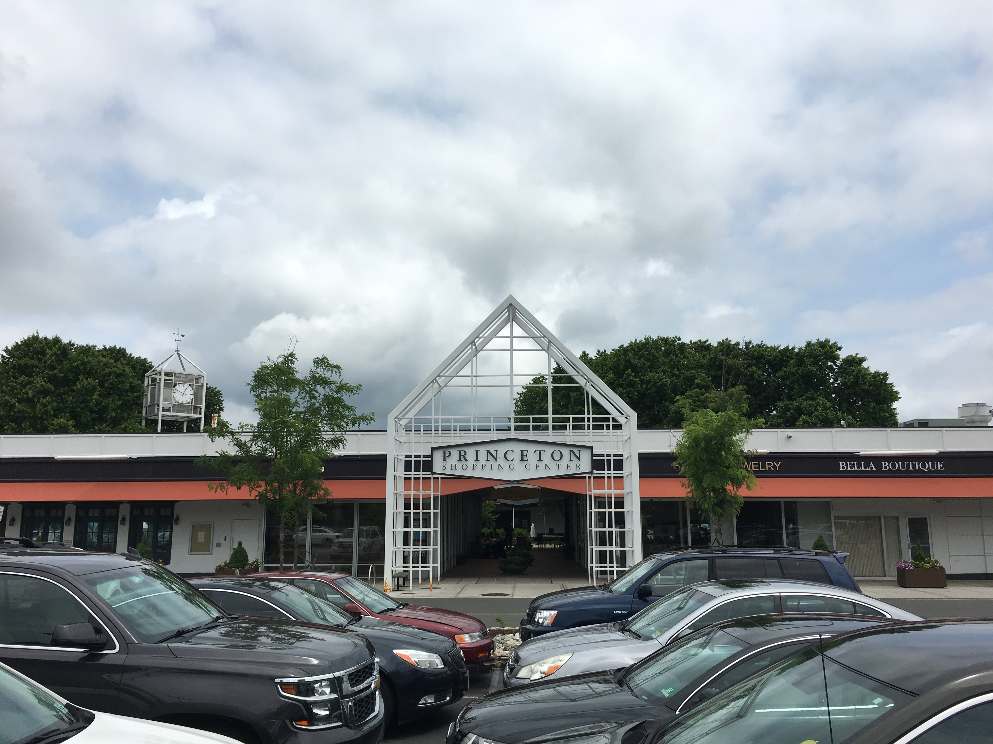 Entrance gate for the Princeton Shopping Center on North Harrison Street in Princeton, New Jersey. This appears is mid-way in the shopping center's length.